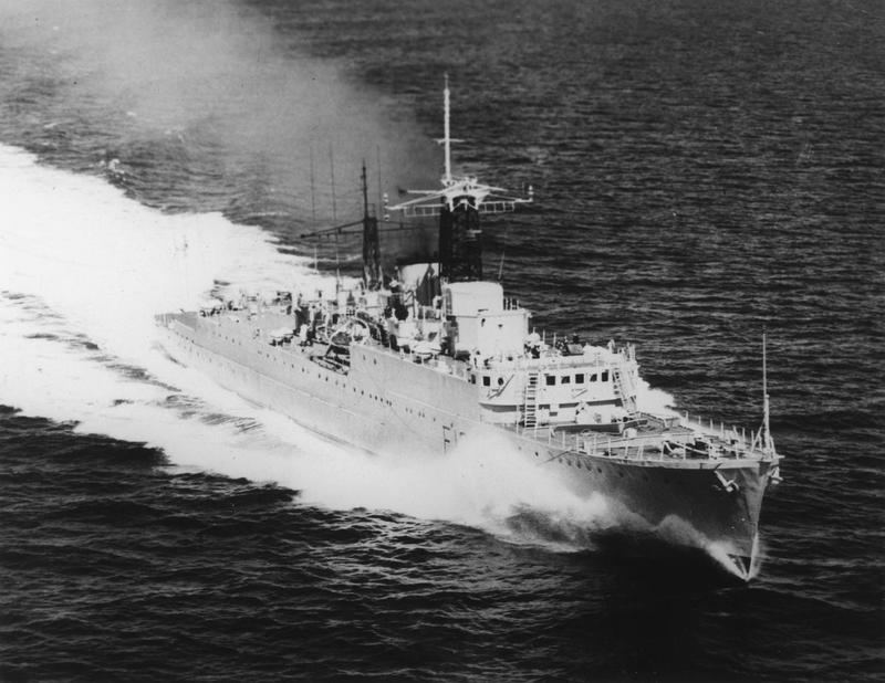 Type 15 frigate HMS Rapid (F138) underway in the North Sea, July 1971.